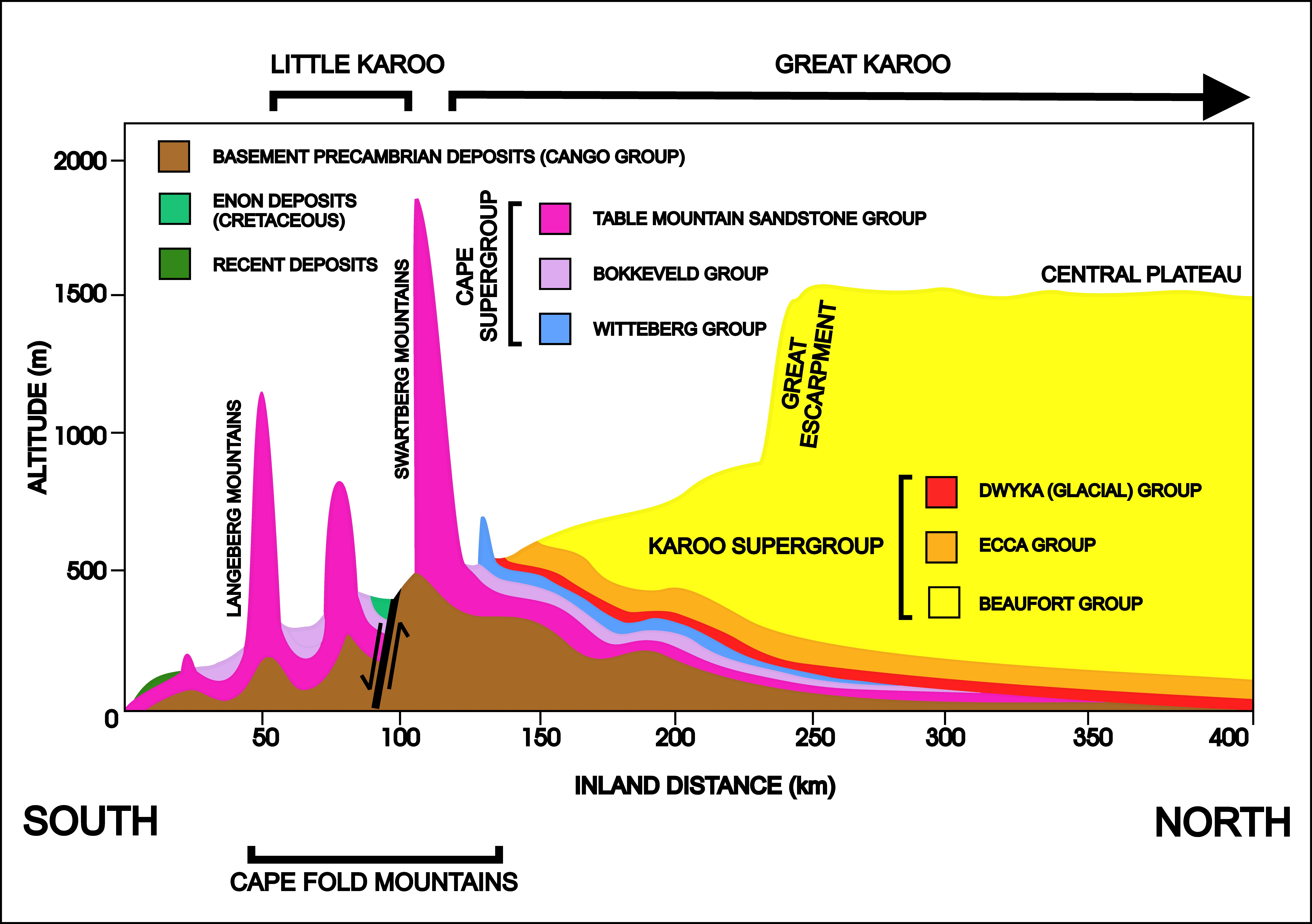 A diagrammatic North-South geological cross section through the southern Cape, South Africa, at approximately the 21° 30' E showing the relationship between the Cape Fold Mountains and the Great Escarpment, and the geological structures that make up these geographical features, as well as the the position of the Great and Little Karoo in relation to the mountain ranges.